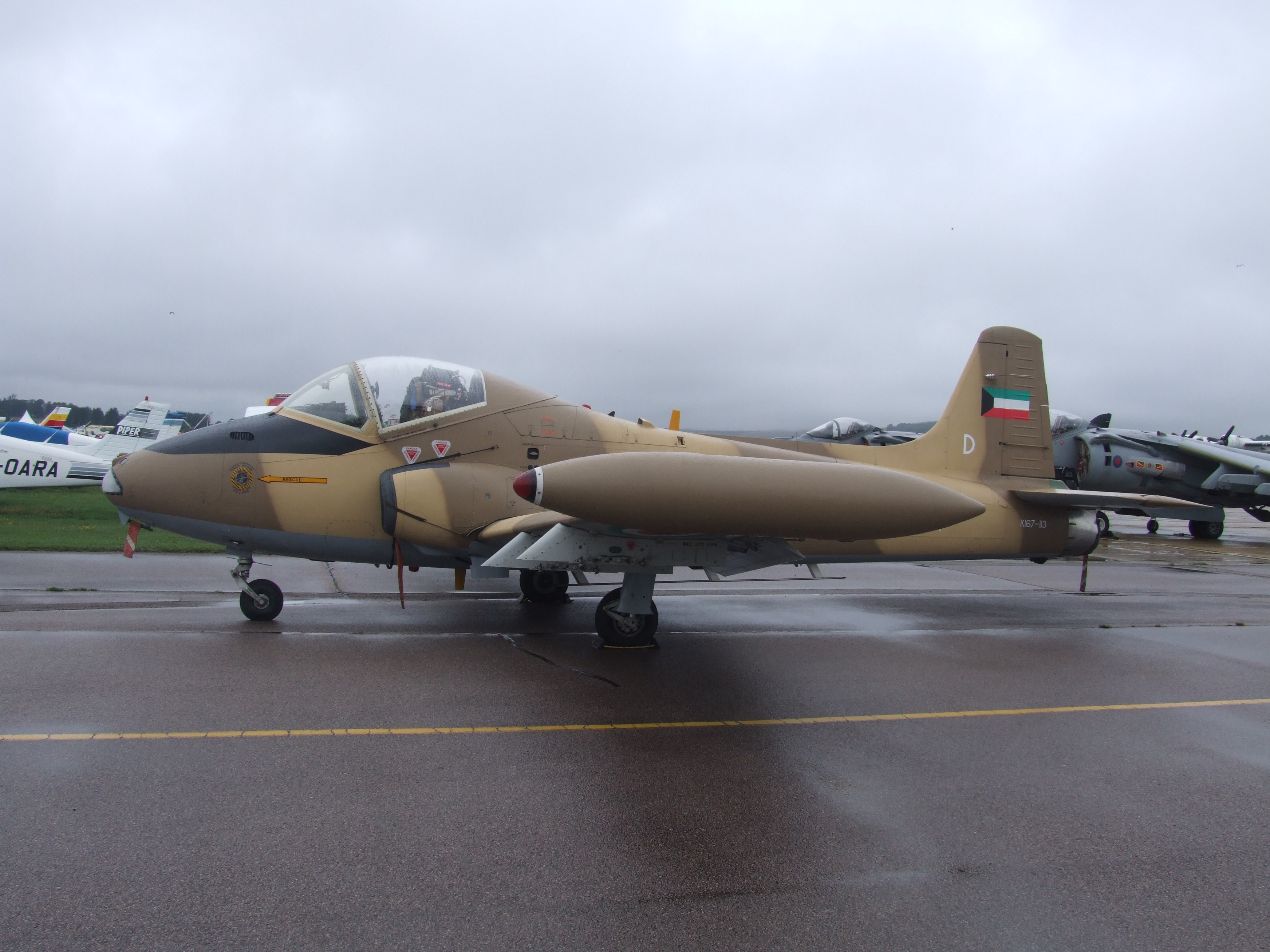 The private BAC 167 Strikemaster Mk.80A cn EEP/JP/4091 marks G-CFBK in Kuwait Air Force livery displayed at Shoreham Airshow 2010.